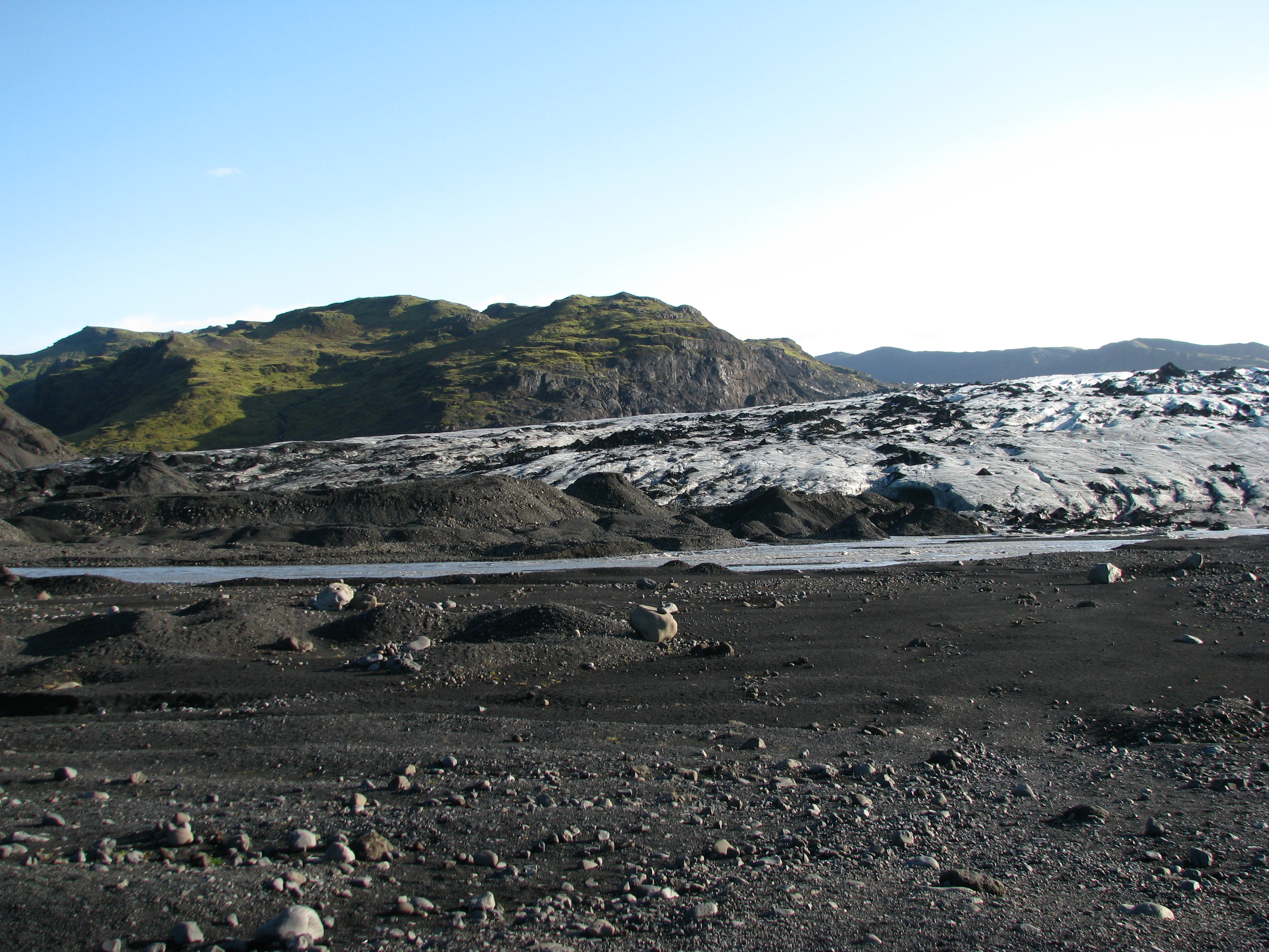 Sólheimajökull, glacier, Iceland